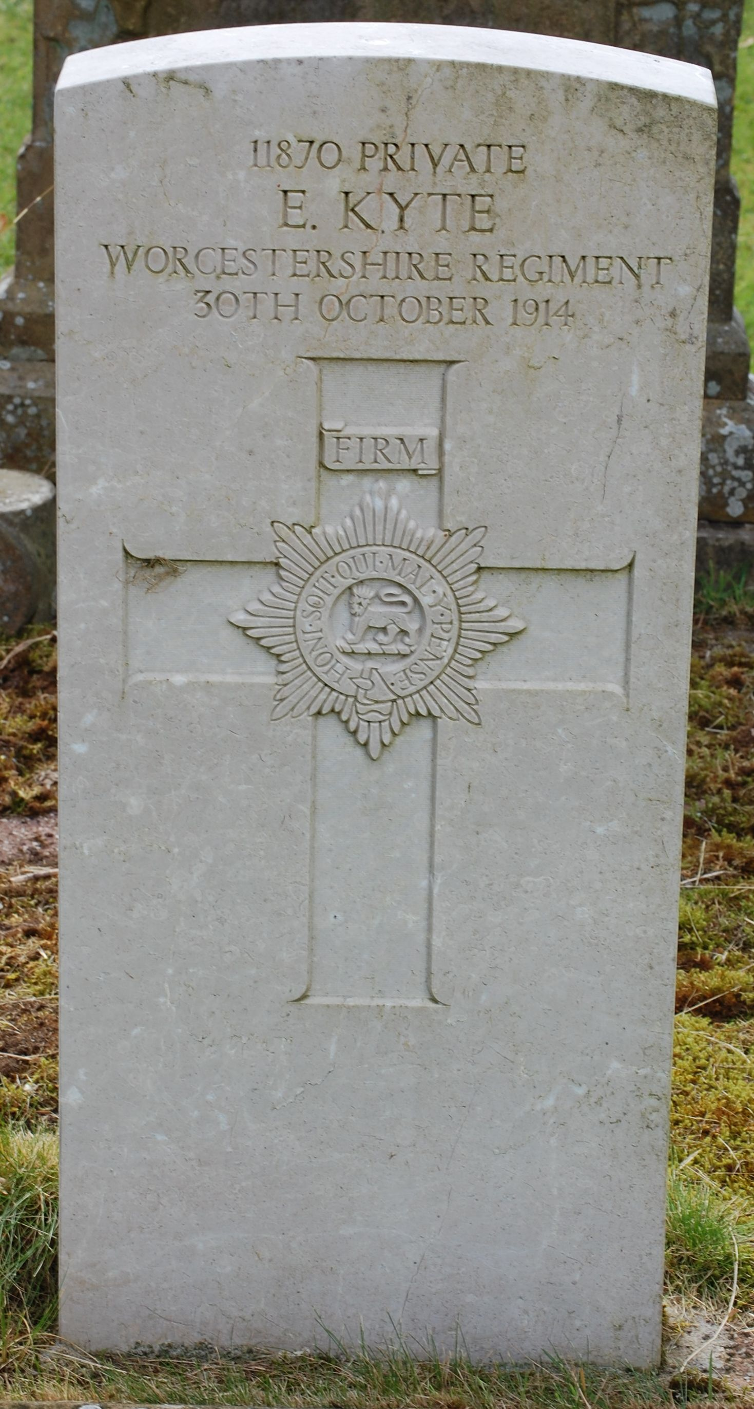 Commonwealth War Graves Commission headstone in St Peter's parish churchyard, Little Aston, Staffordshire. Pte. E Kyte, Worcestershire Regiment, died 30 October 1914. The headstone shows the regimental badge.